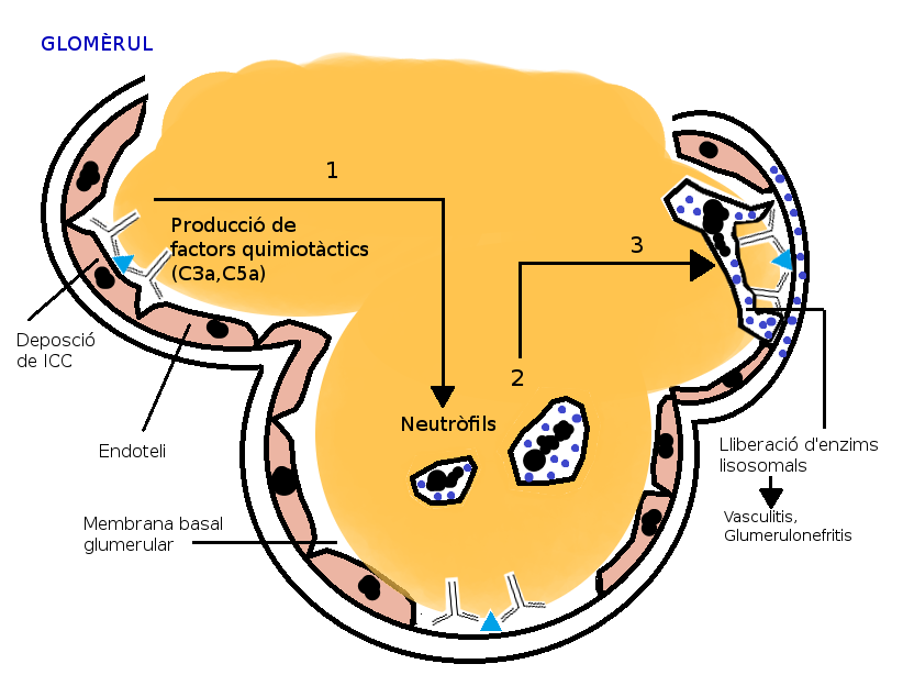 Tisular damage